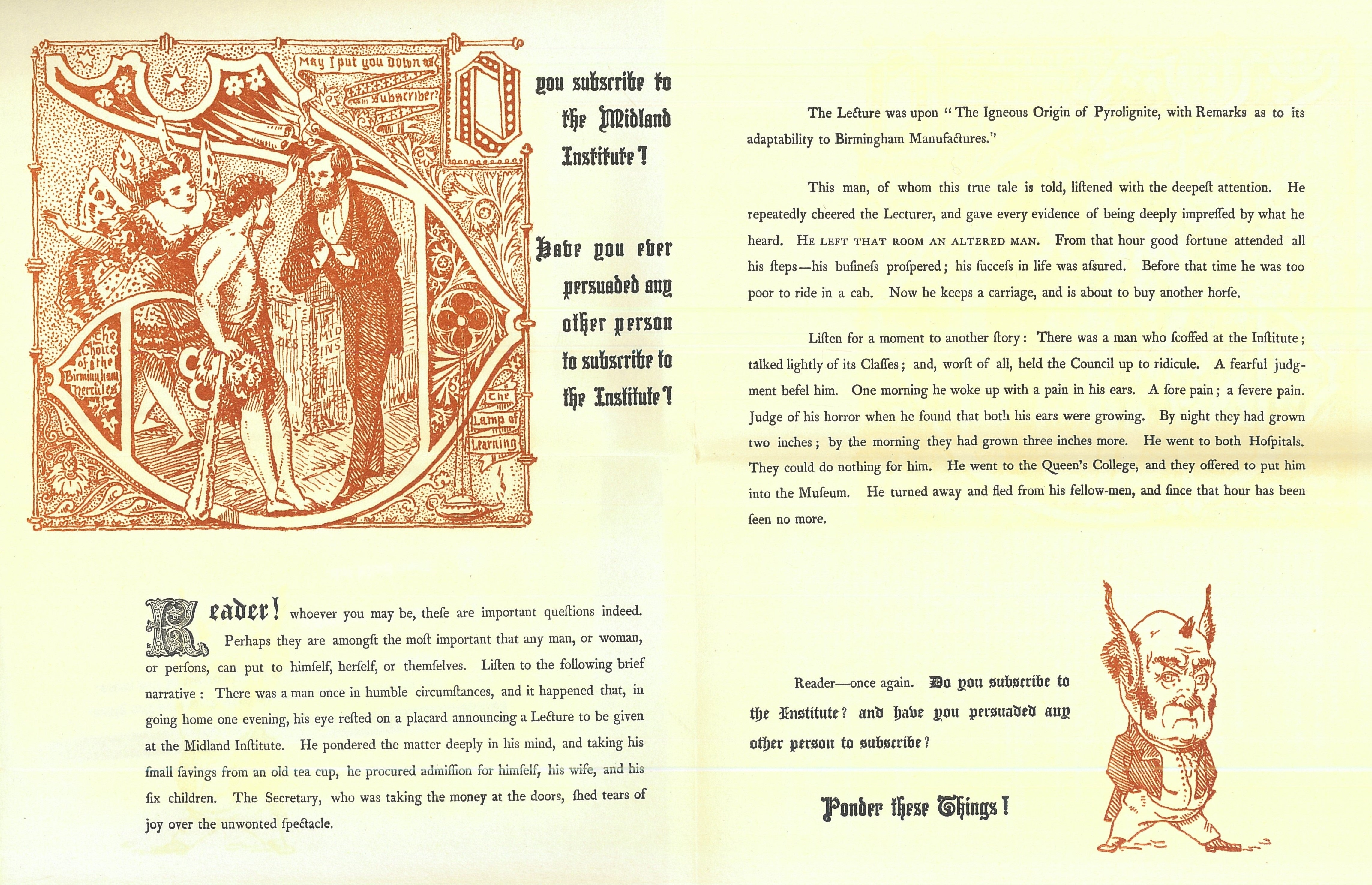 Leaflet written and designed by J. H. Chamberlain appealing for new subscribers to the Midland Institute (i.e. the Birmingham and Midland Institute). Distributed at the 1866 Conversazione. Chamberlain (Secretary of the BMI, 1865-83), appears in the first woodcut, signing up Hercules as a new member. This is a facsimile of the original leaflet, published in Rachel E. Waterhouse, 'The Birmingham and Midland Institute, 1854–1954' (Birmingham, 1954).